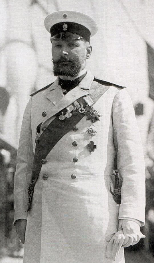 Pyotr Stolypin, 1910 (crop from File:1910. В.Б.Фредерикс и П.А.Столыпин.jpg).